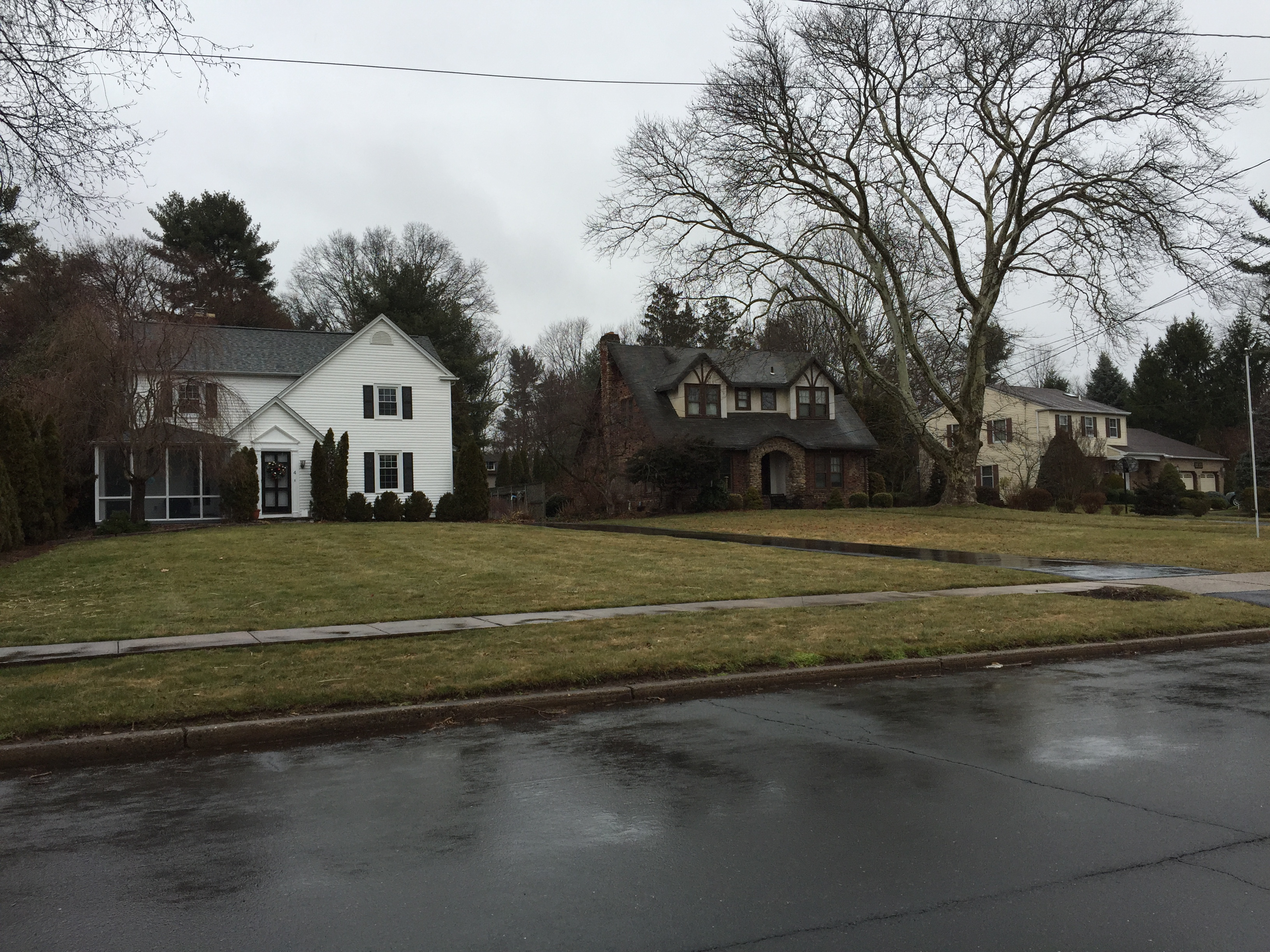 Houses along Lake Boulevard in the Hillwood Lakes section of Ewing, New Jersey